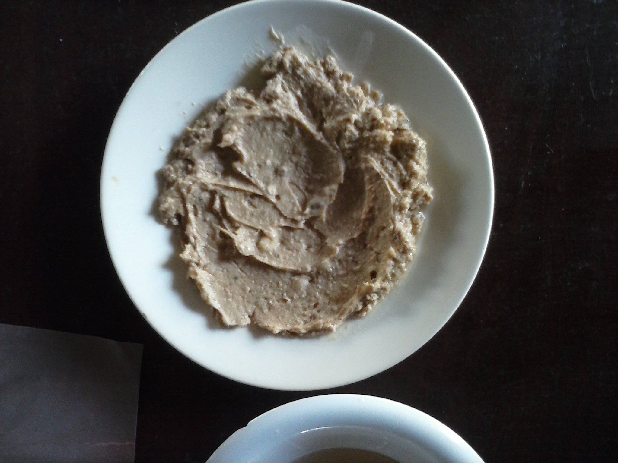 Mesh is a kind of chilly cheese that can be eaten alone or with bread and Fateer. This is an image of food from Egypt